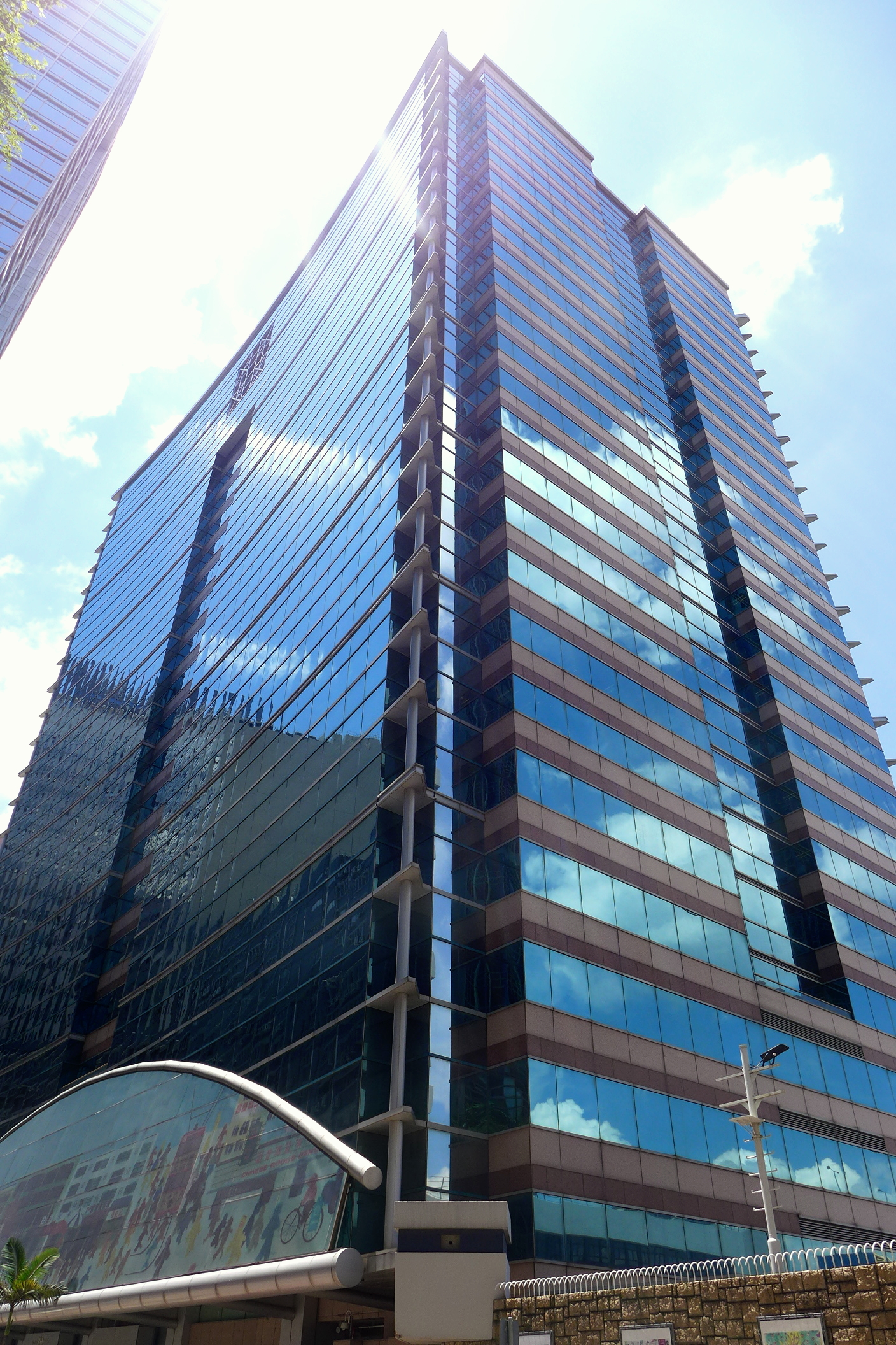 North Point Government Offices